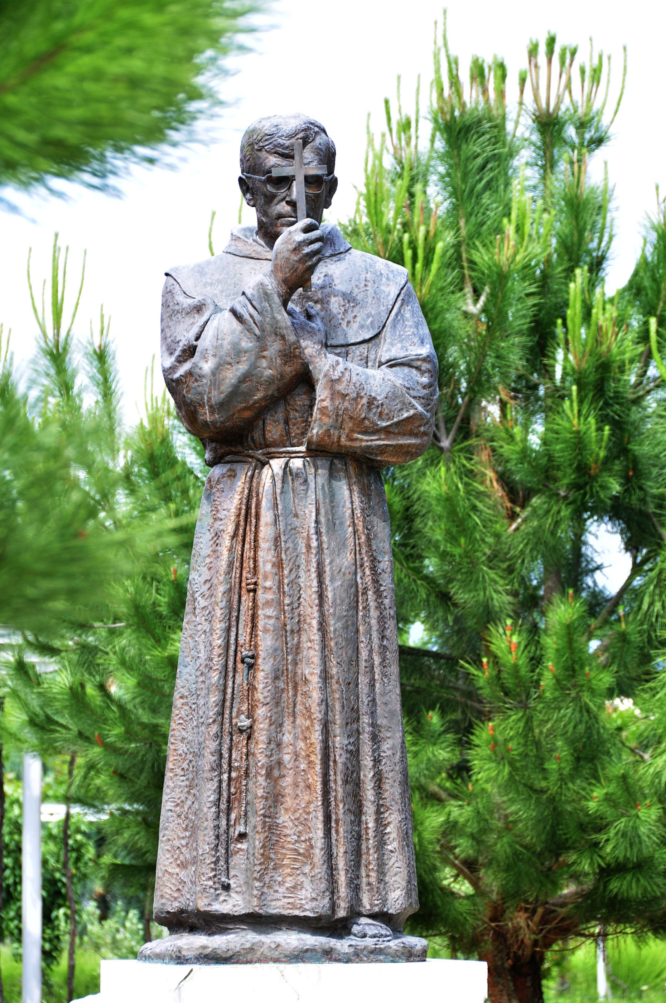 medjugorje bosnia herzegovina apparitions virgin mary roman catholic pension pansion porta travel creative commons cc gnuckx panoramio flickr map geotag wiki wikipedia